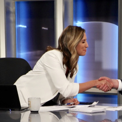 Vassy Kapelos, the new host of PnP CBC, in studio with Andrew Scheer